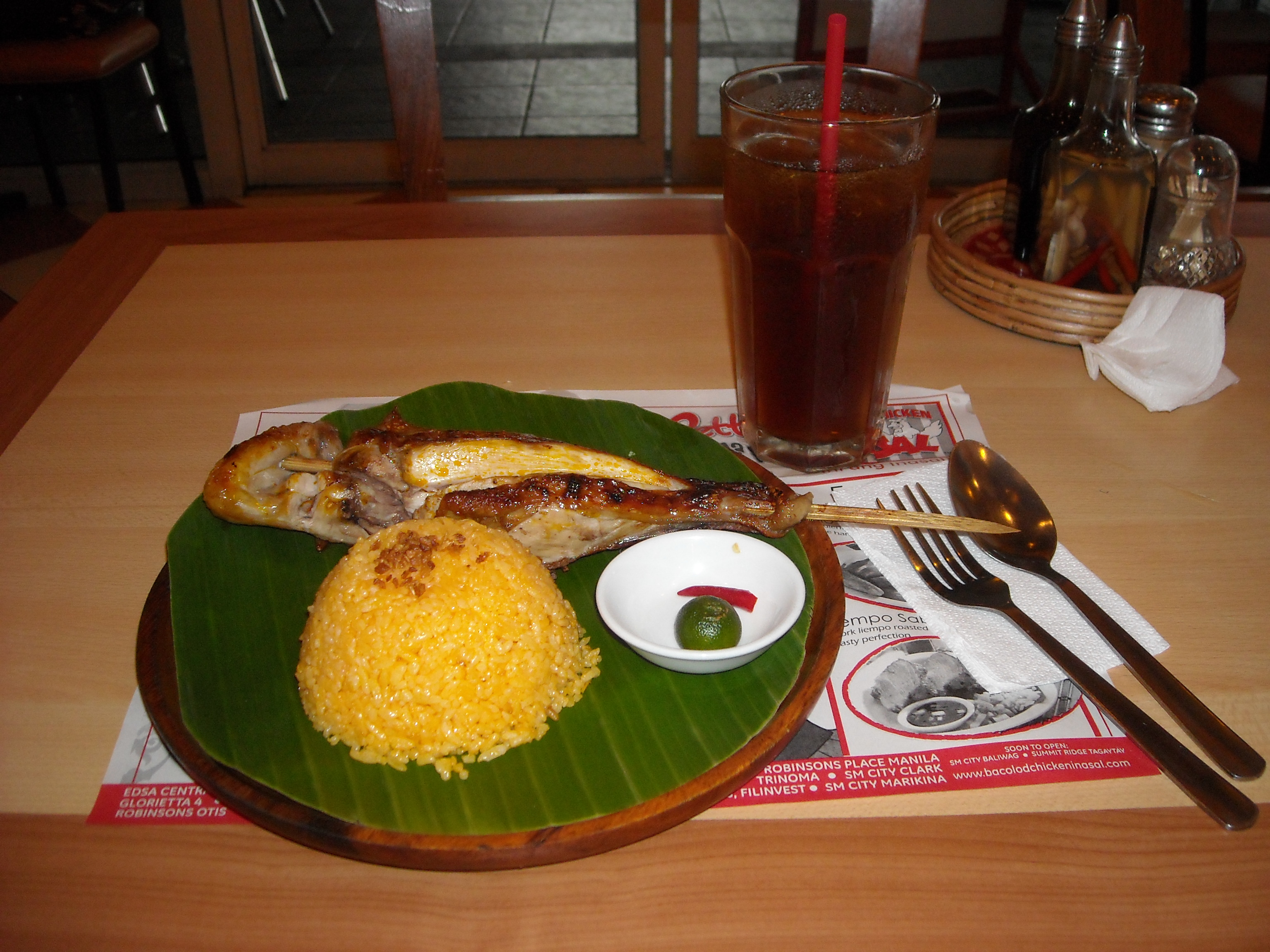 What I had for lunch hours ago. Cost almost three dollars.